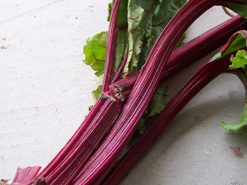 Table beet stem infected with Pectobacterium carotovorum subsp. betavasculorum, the cause of Beet Vascular Necrosis. The beet was infected with Pectobacterium carotovorum subsp. betavasculorum and incubated in a moist chamber